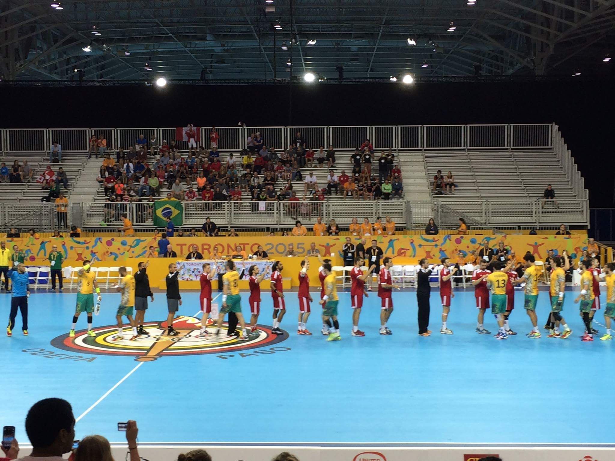 The conclusion of the 2015 Pan American Games men's handball match between Canada and Brazil